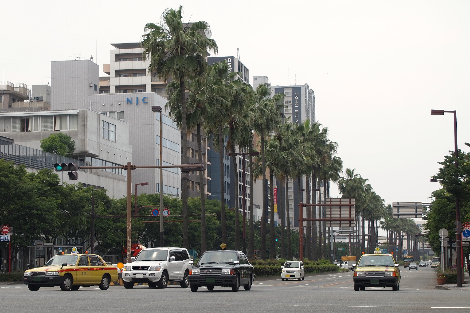 Taihaku-dori avenue in Fukuoka City, view towards Hakata Station from Fukuoka Sunpalace